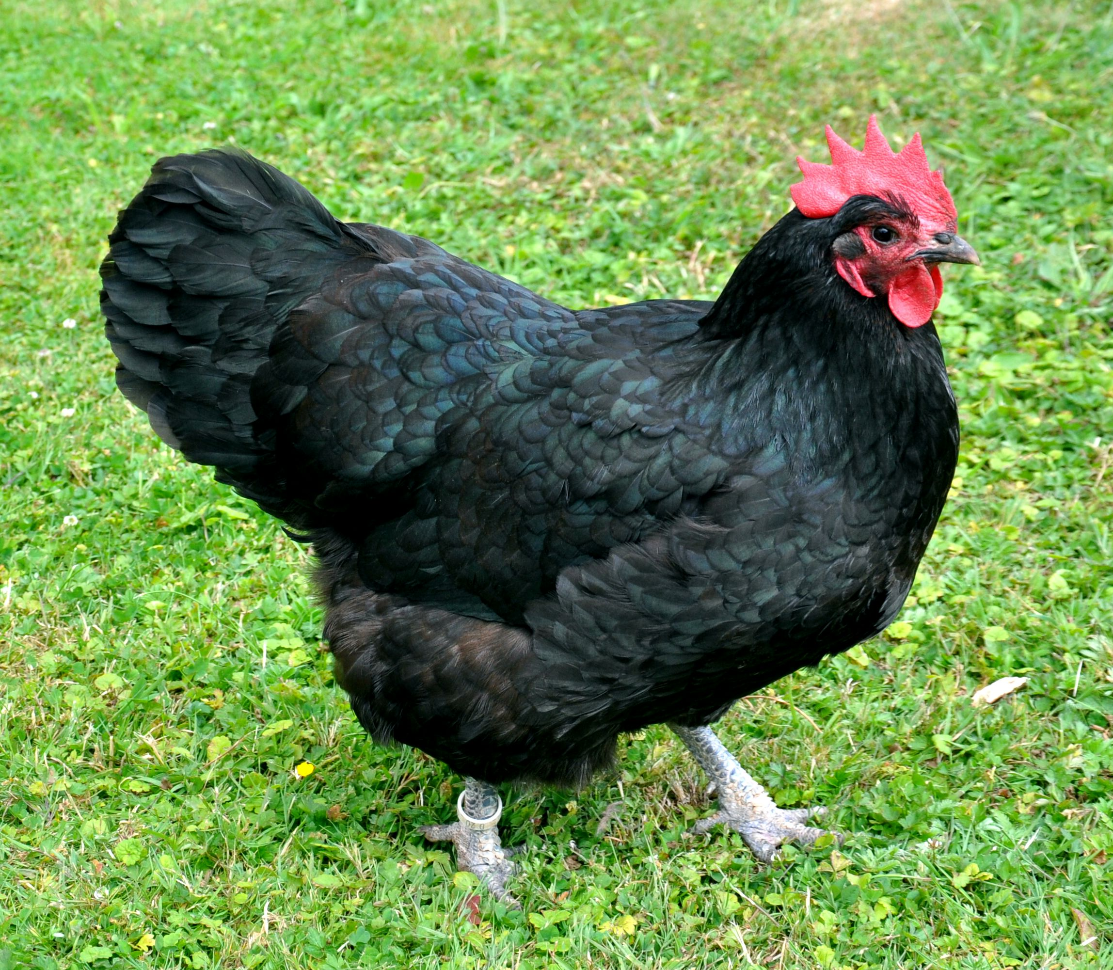 Australorp hen, chicken breed of Australian origin